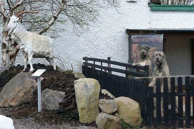 Oh, no, another photographer These two Irish Wolfhounds at the kerry Bog Museum looked bored at the sight of another photographer. The goat is more pleased to see us.